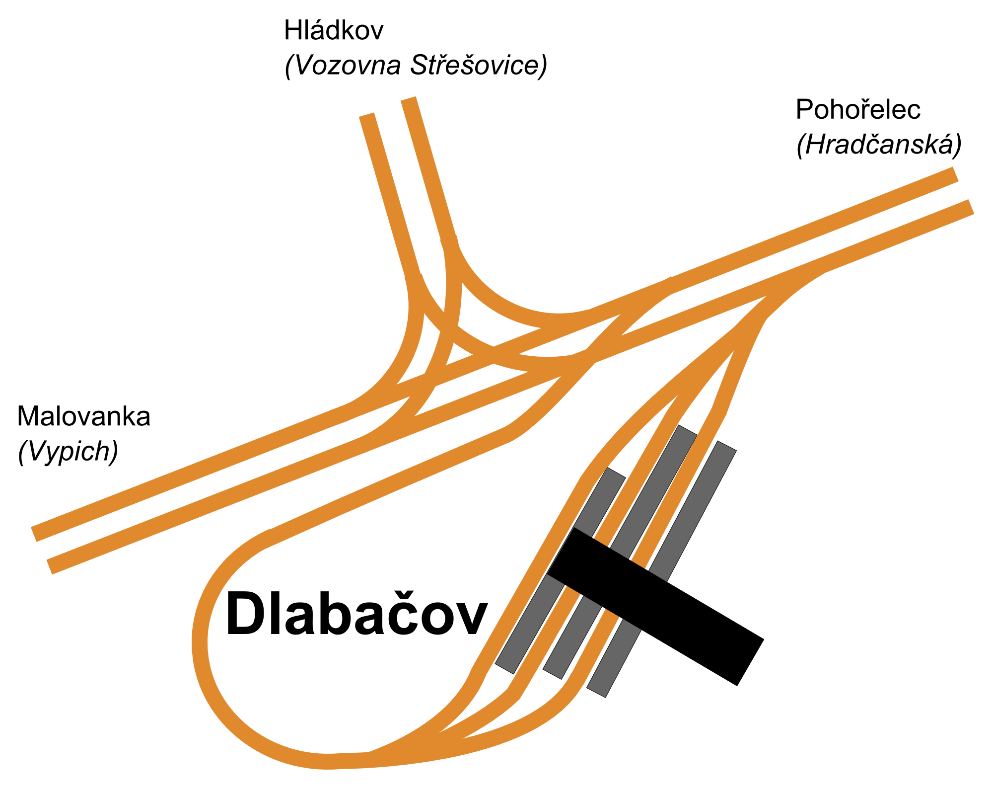 Scheme, Tram turning place Dlabačov, Prague